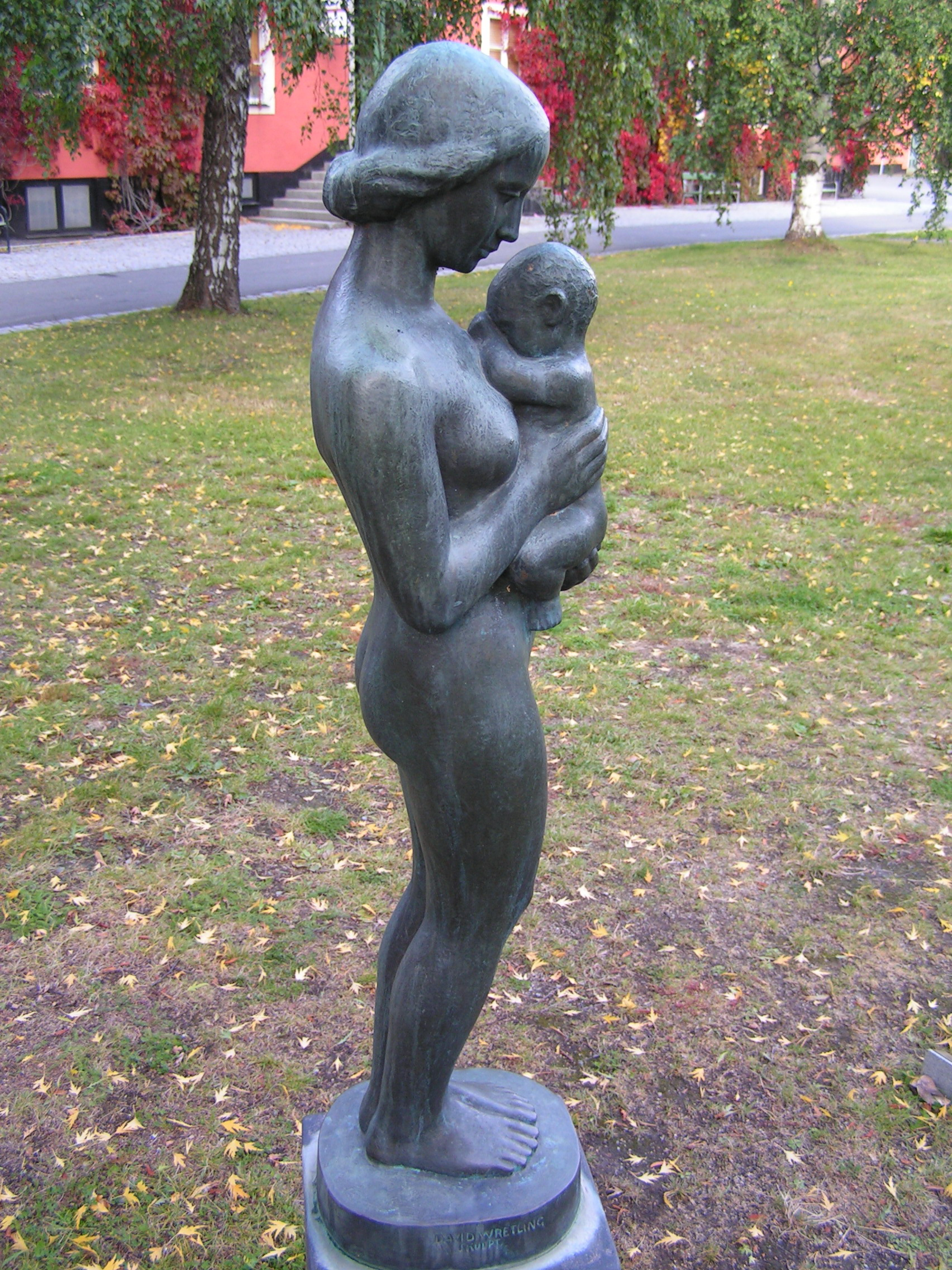 David Wretling, "Mother and child", Bronze, 1958. Photo taken at Umedalen sculpture park